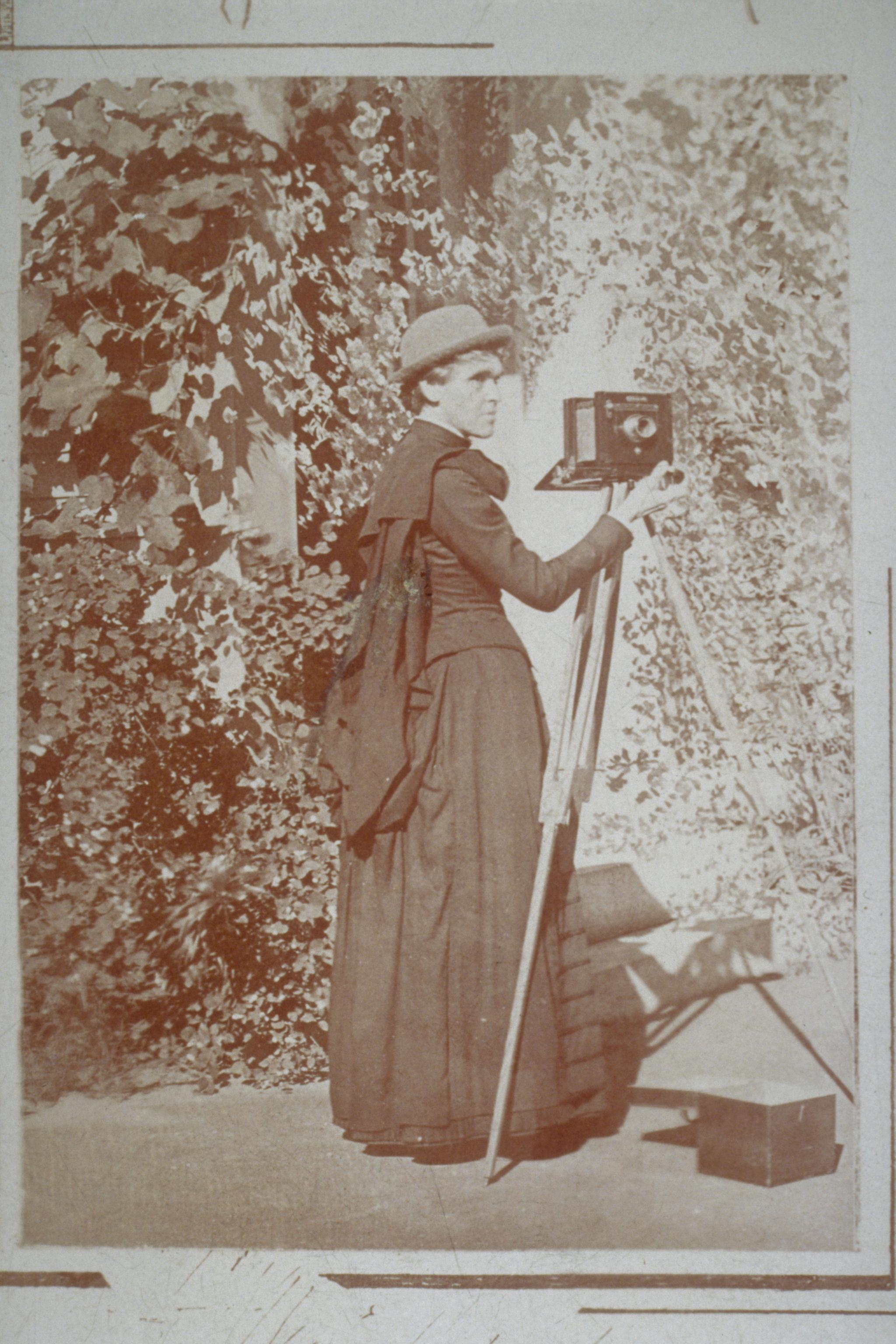 Cover illustration of E. Jane Gay with her camera, ca. 1889-1897. View catalog record Photographer: E. Jane Gay Questions? Ask a Schlesinger Librarian